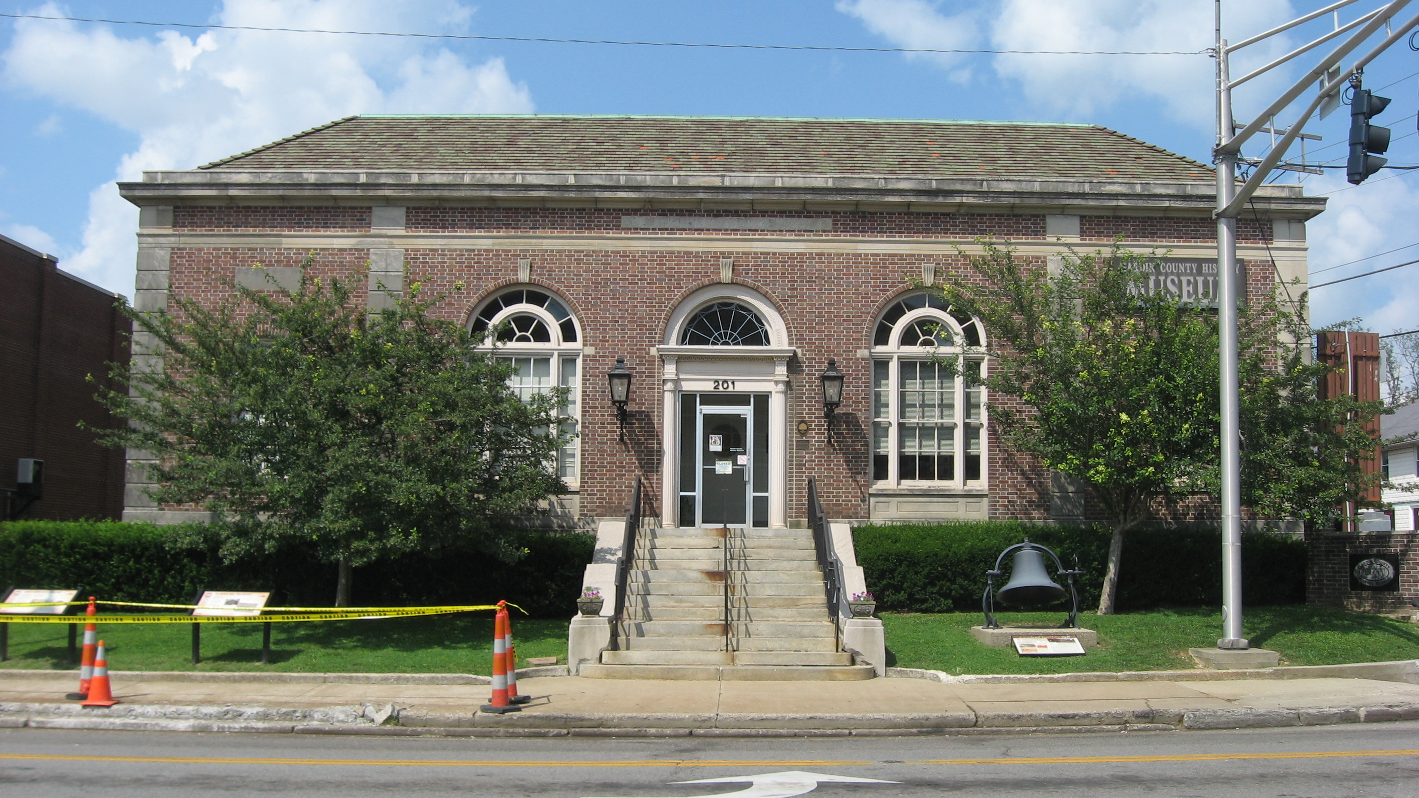 Front and southern side of the former U.S. Post Office, located at 201 W. Dixie Avenue (U.S. Route 31) in Elizabethtown, Kentucky, United States. Built in 1931 and since converted into the county history museum, it is listed on the National Register of Historic Places.